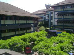 is a picture